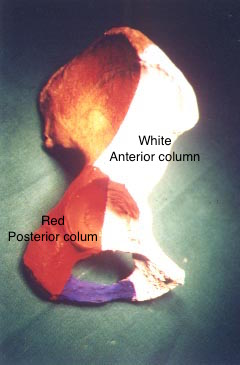 Column concept